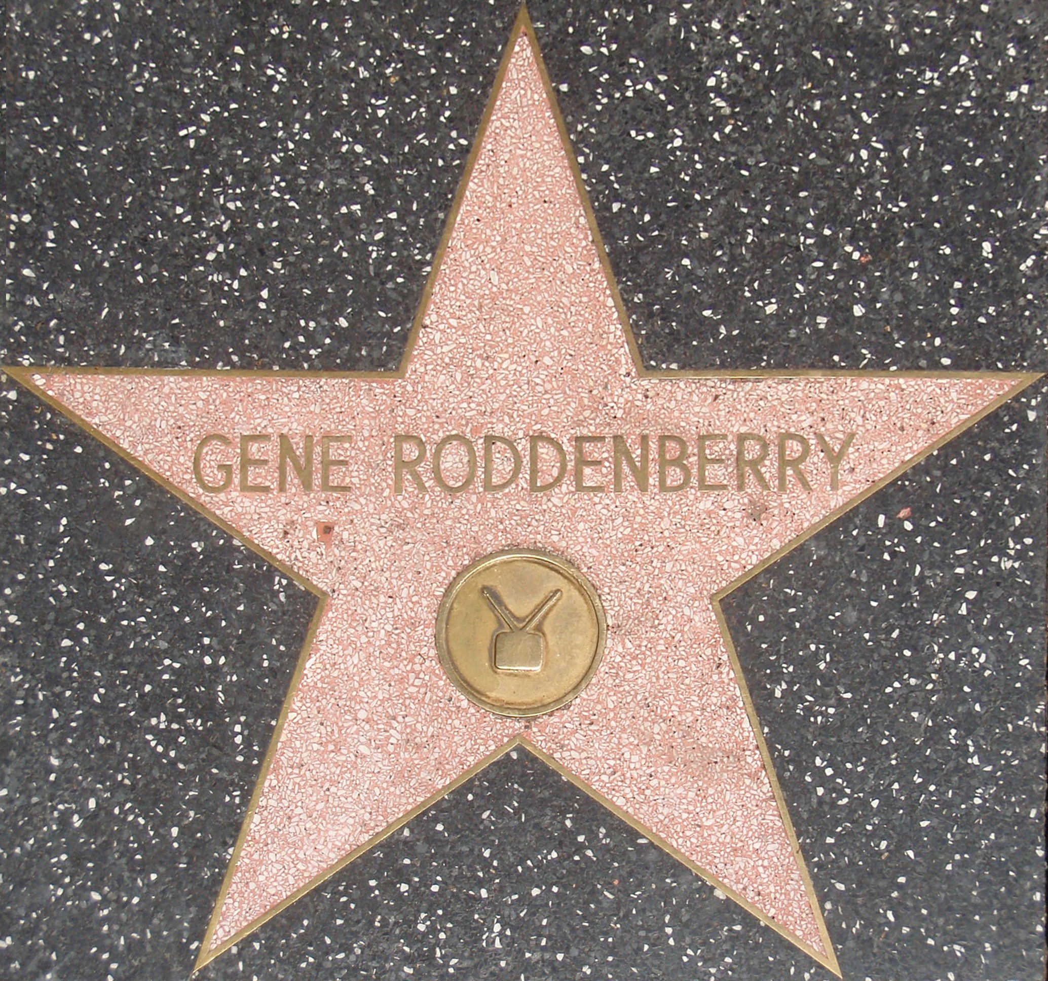 Gene Roddenberry's star on the Hollywood Walk of Fame (perspective-cropped)